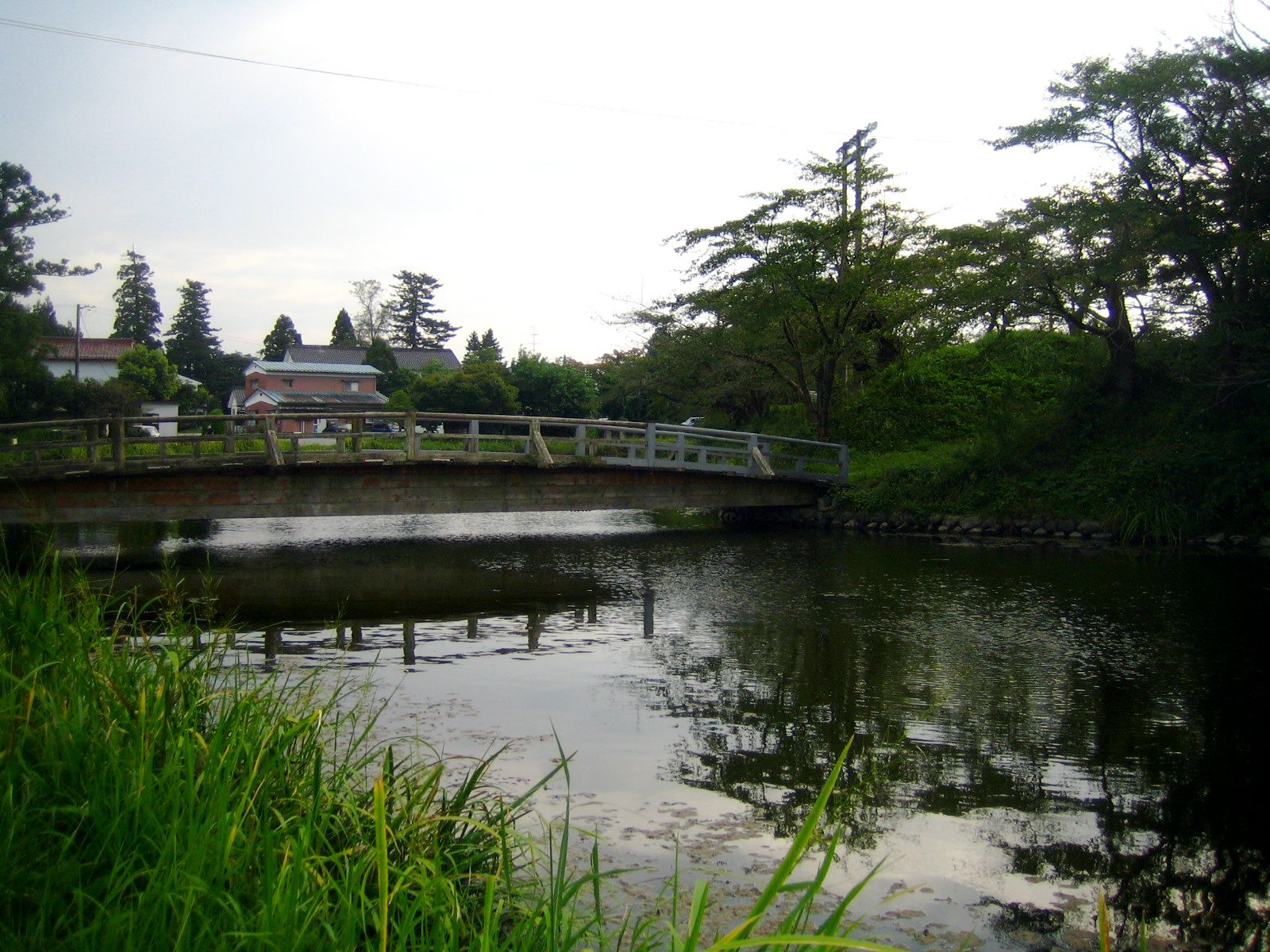 Moat of Soma Nakamura Castle